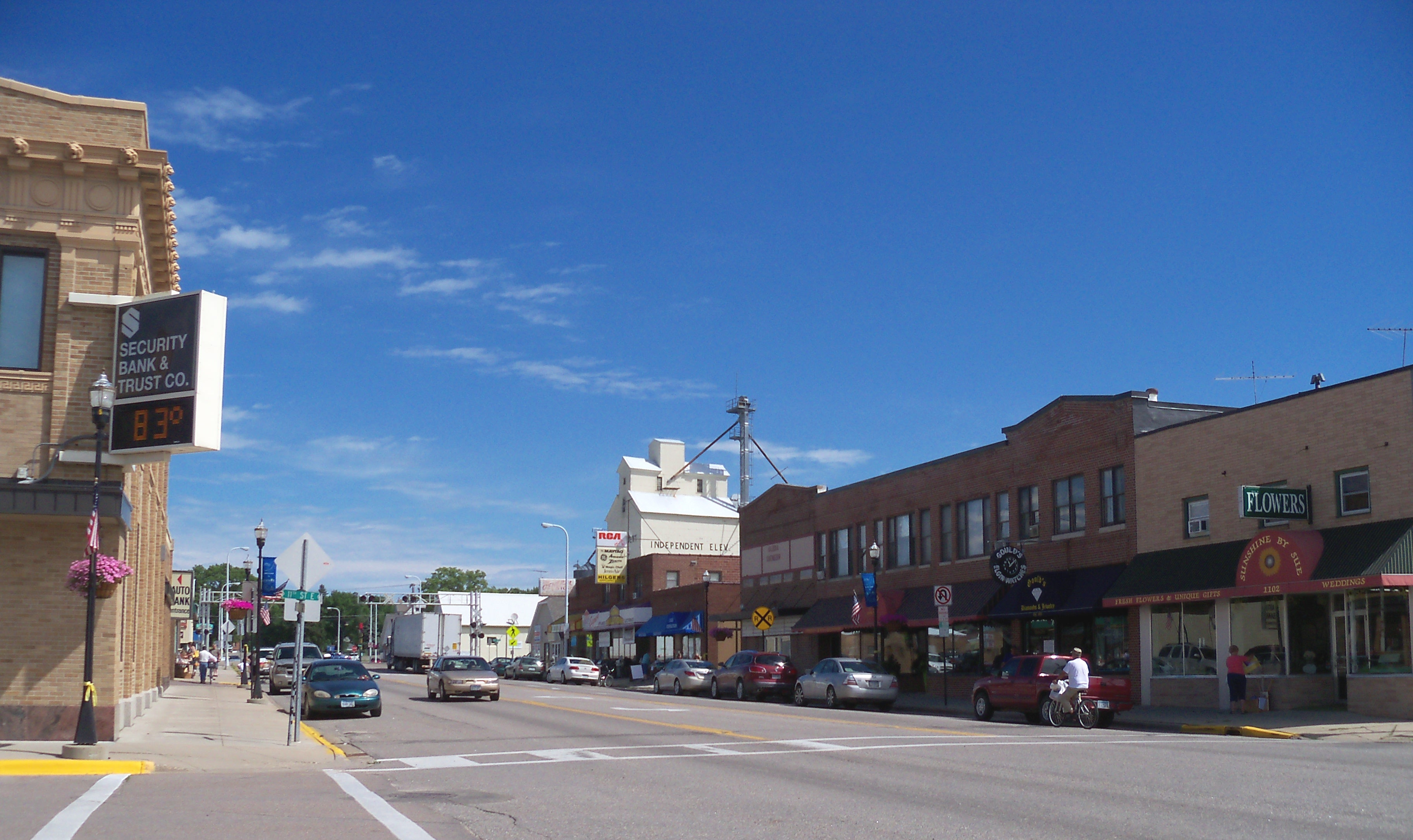 Street in Glencoe, Minnesota, USA.